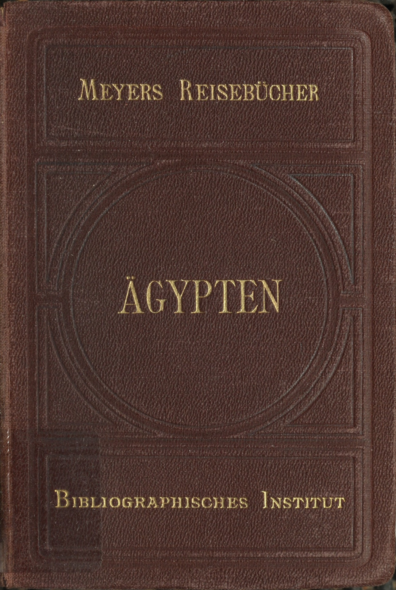 Cover of Egypt guidebook, of the Meyers Reisebucher travel guide series.